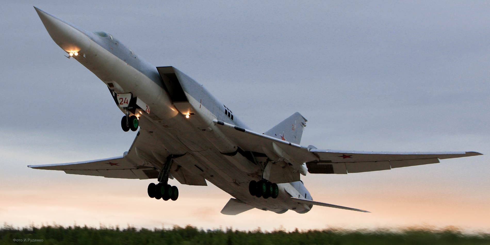 Tupolev Tu-22M3